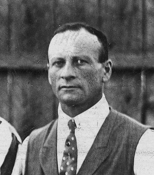 First polish football champion - KS Cracovia